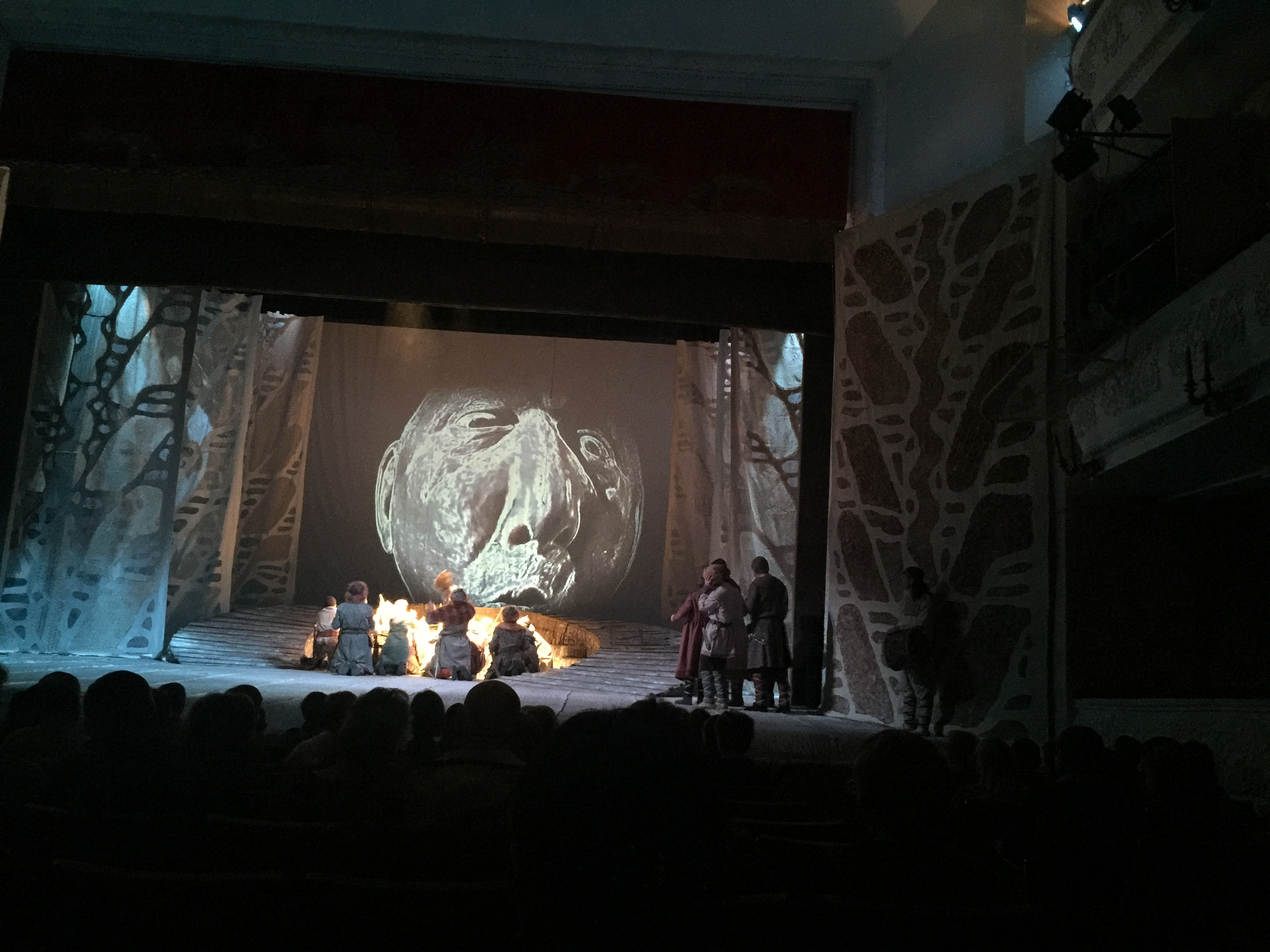 Yugorno. Mari folk epos in Mari national dramatic theatre 16.03.2019.